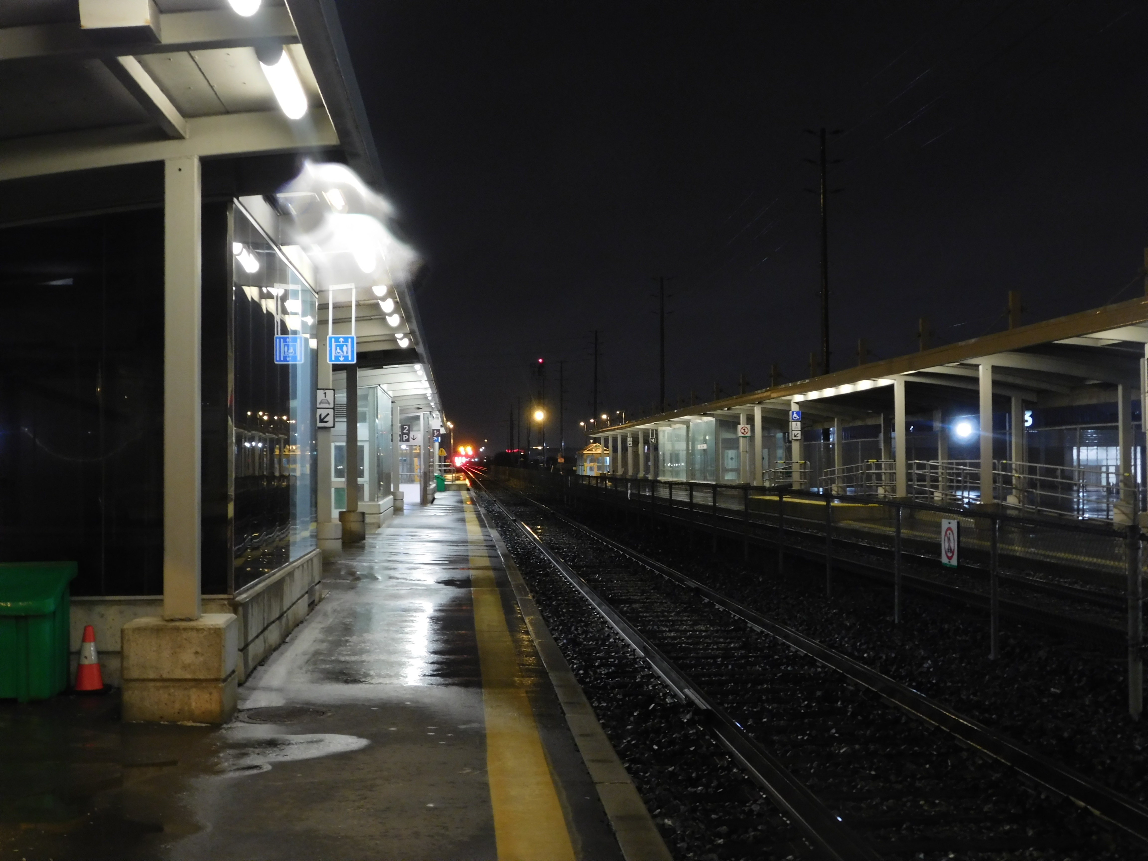 Malton station of GO Transit in March 2019.